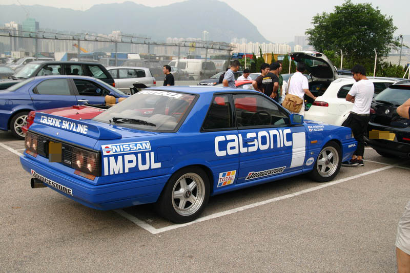 Calsonic Skyline R31 GTS-R